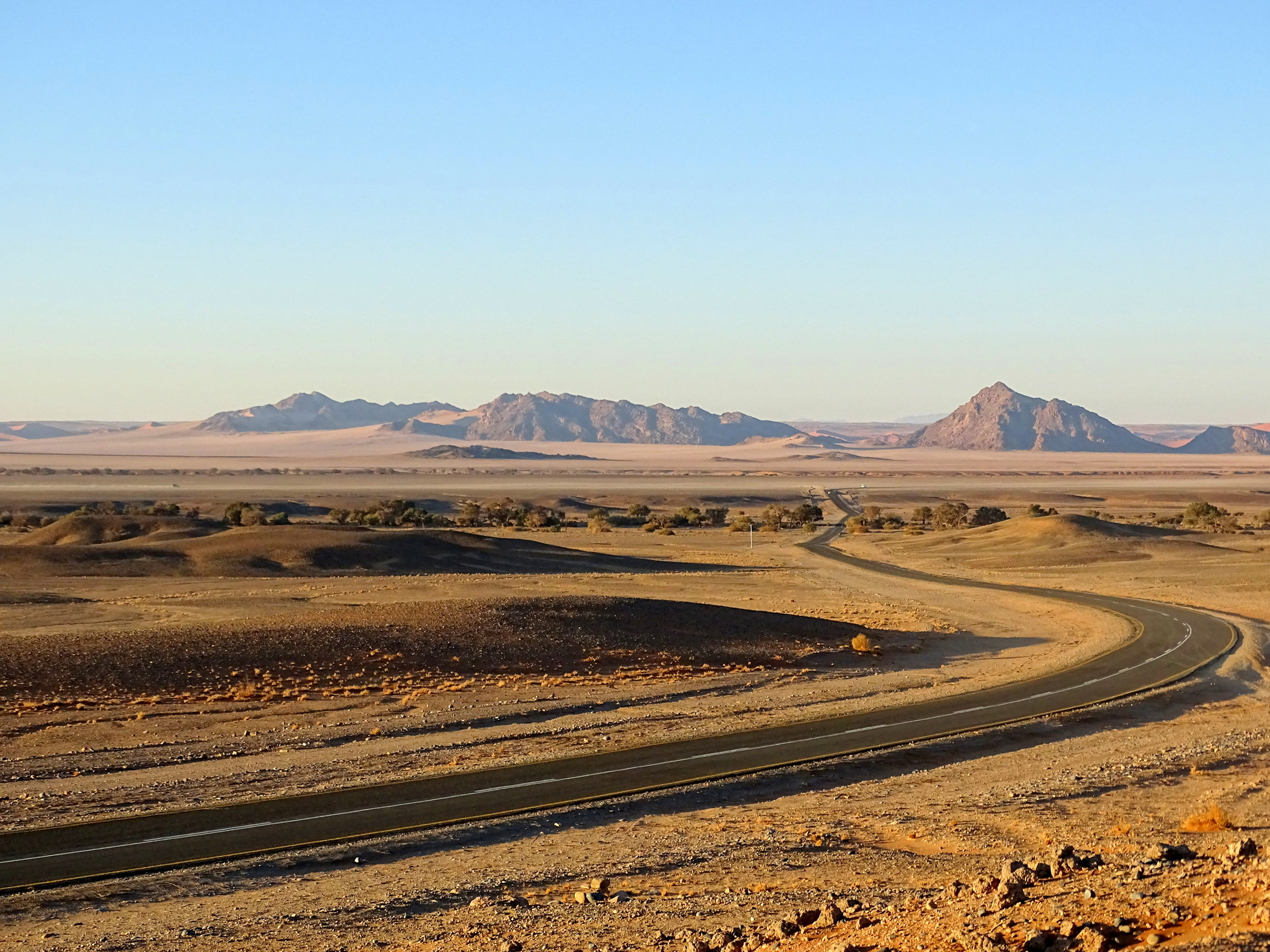 This is an image with the theme "Africa on the Move or Transport" from: Namibia